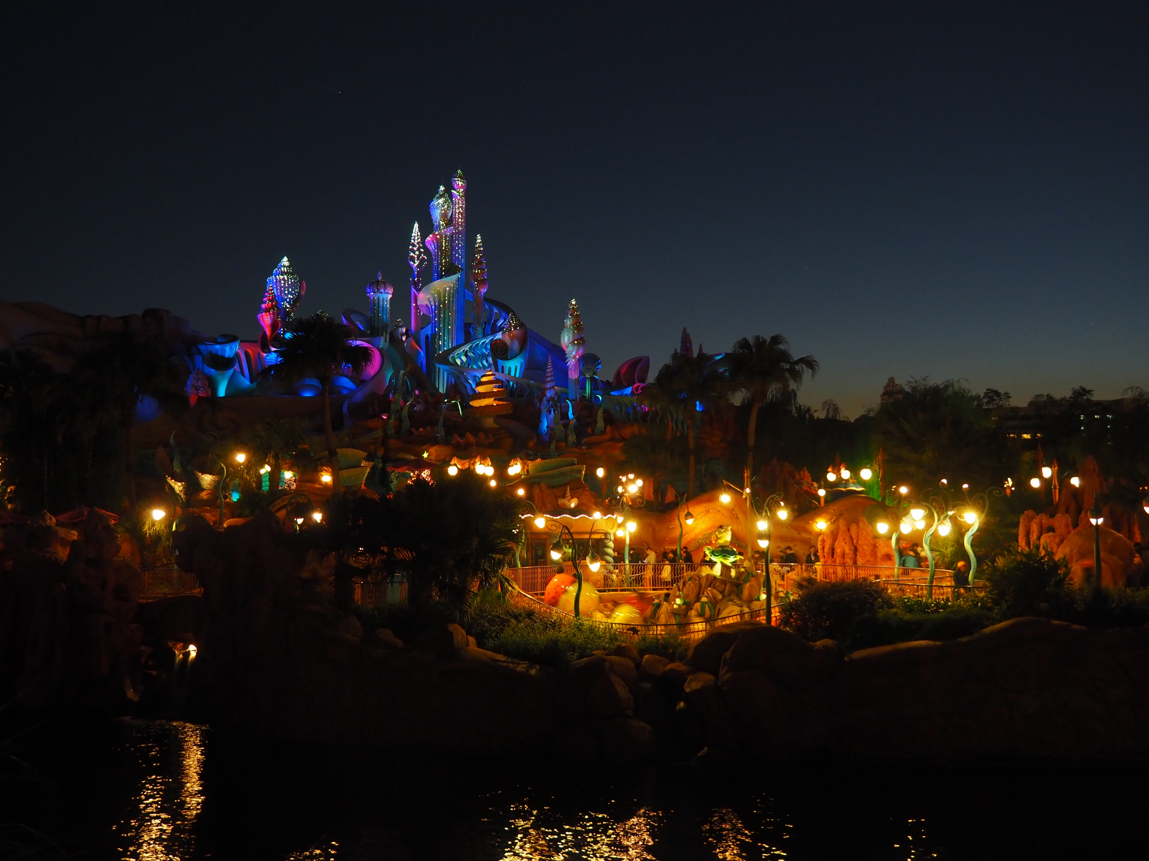 Tokyo DisneySea